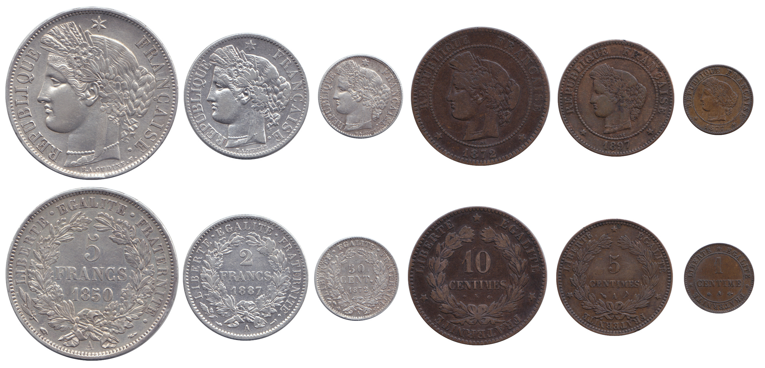 France. Second and third republics. Coins 5, 2 francs and 50, 10, 5 and 1 centime. The obverse depicts the ancient Greek goddess of fertility Ceres by Eugene-André Udine. Silver, bronze. Paris Mint, except for 10 centimes coin (Bordeaux).